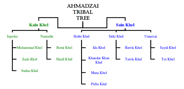 A family tree detailing subtribes of the Ahmadzai Pashtuns. Extracted from a PDF published by the Naval Postgraduate School, US Navy.